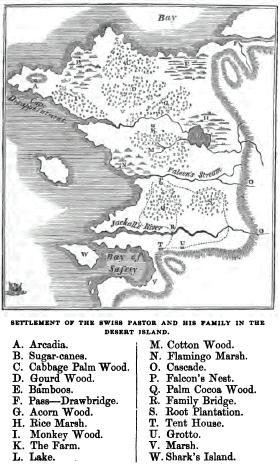 Map of New Switzerland from The Swiss Family Robinson. This is an accurate reproduction of the map included with the original German edition (later editions had different/changed maps, often showing it as an island).